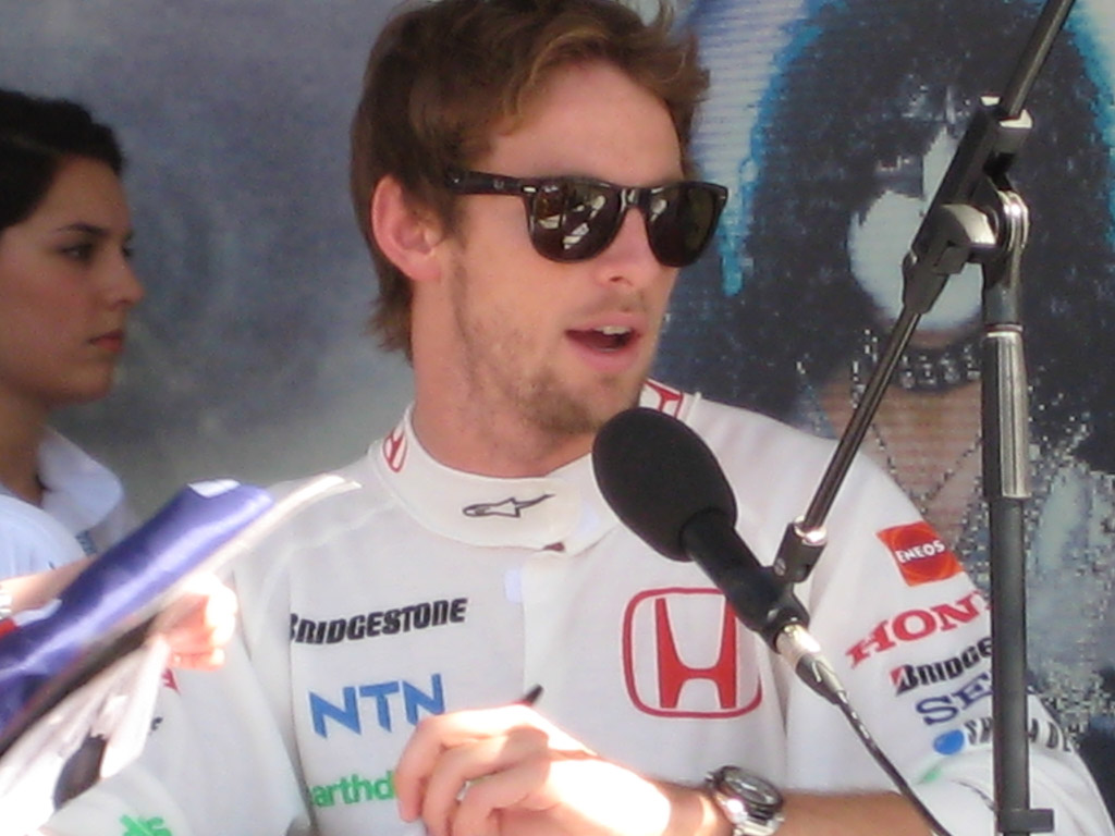 Jenson Button at an interview.